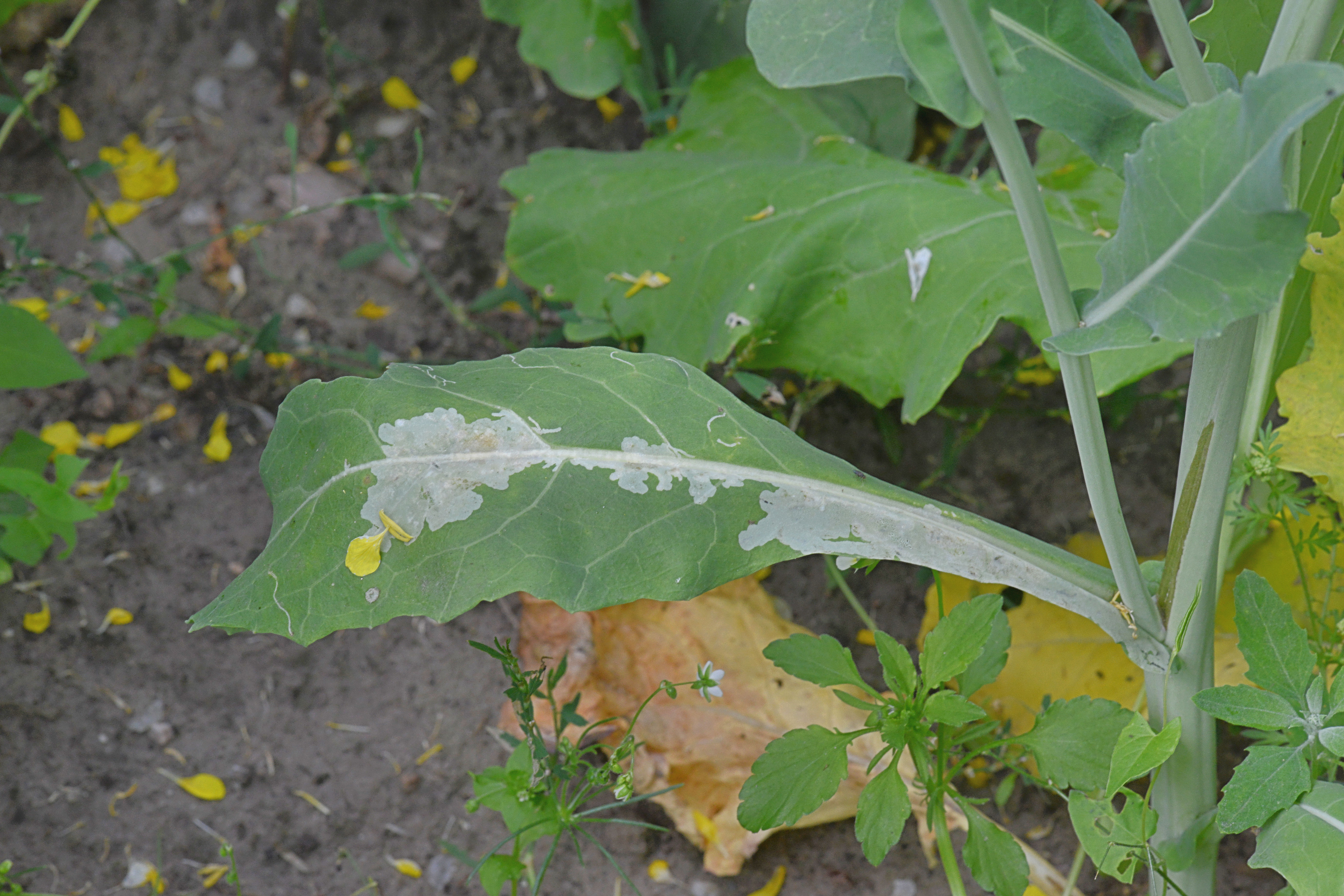 leaf-mining_fly damage on Brassica napus